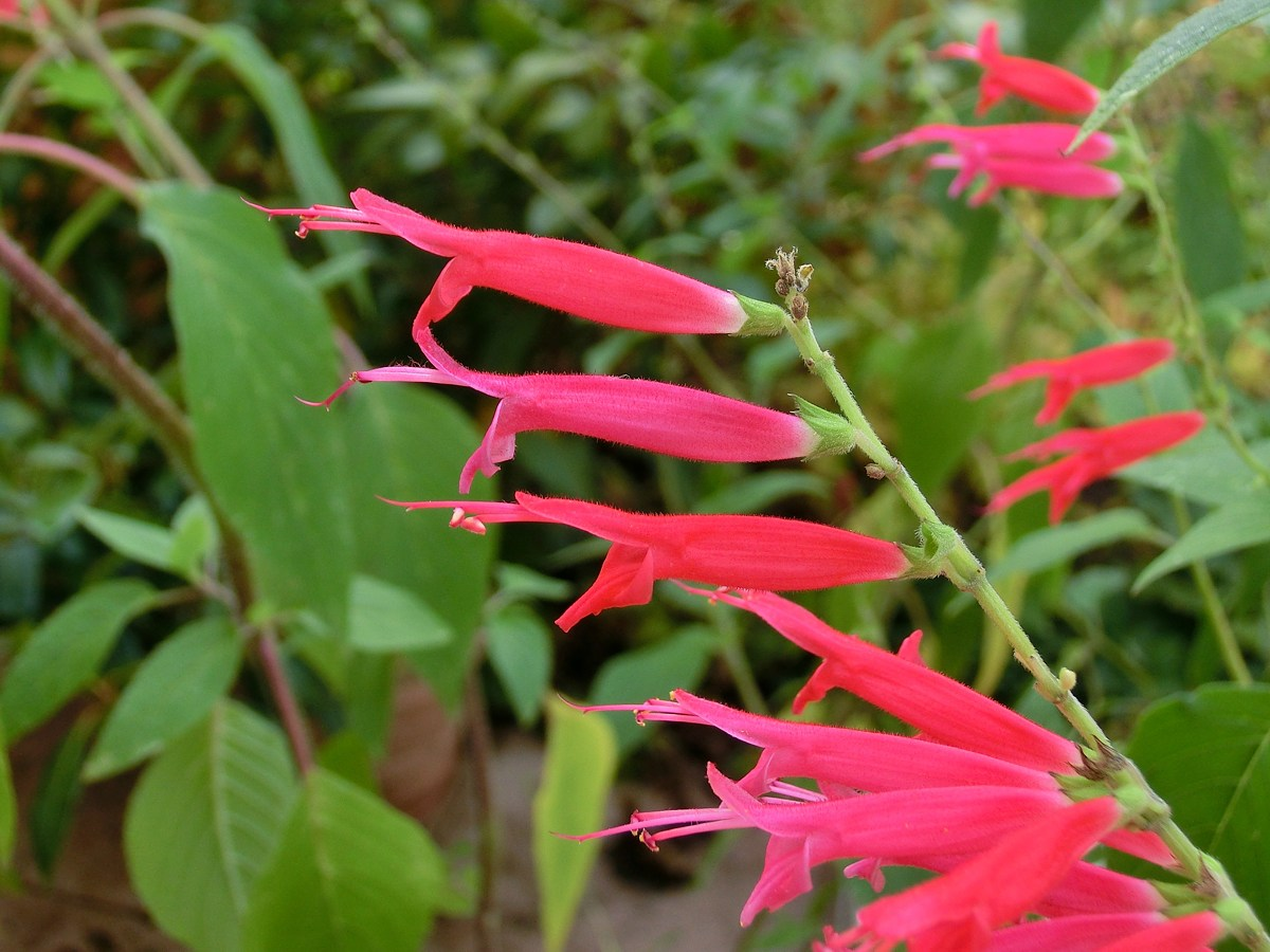 Salvia elegans, pineapple sage, potted plant flowering in november. Flowers edible.